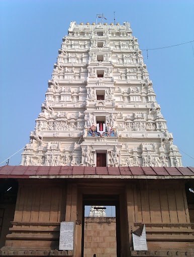 Its is also know as golden pillar temple of vrindavan.